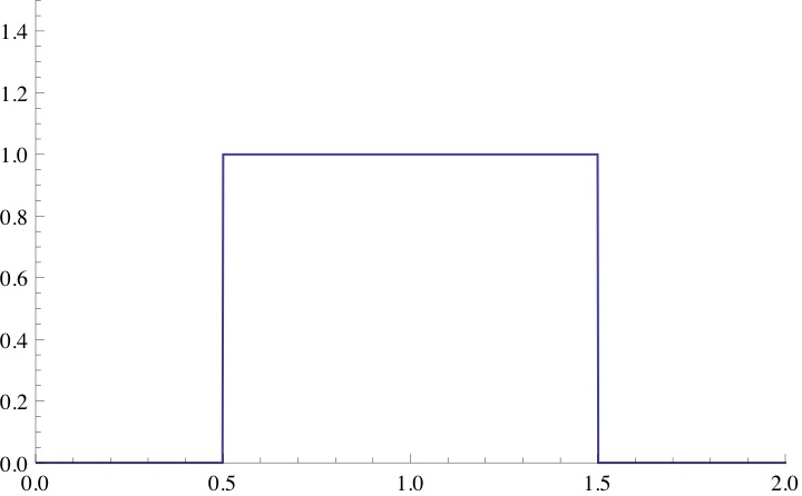 Band-pass filter